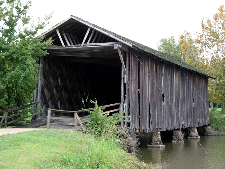 A photo of the Alamuchee-Bellamy Covered Bridge in Sumter County, Alabama. It was taken by M.L. Devall in October 2007 on the campus of the University of West Alabama.